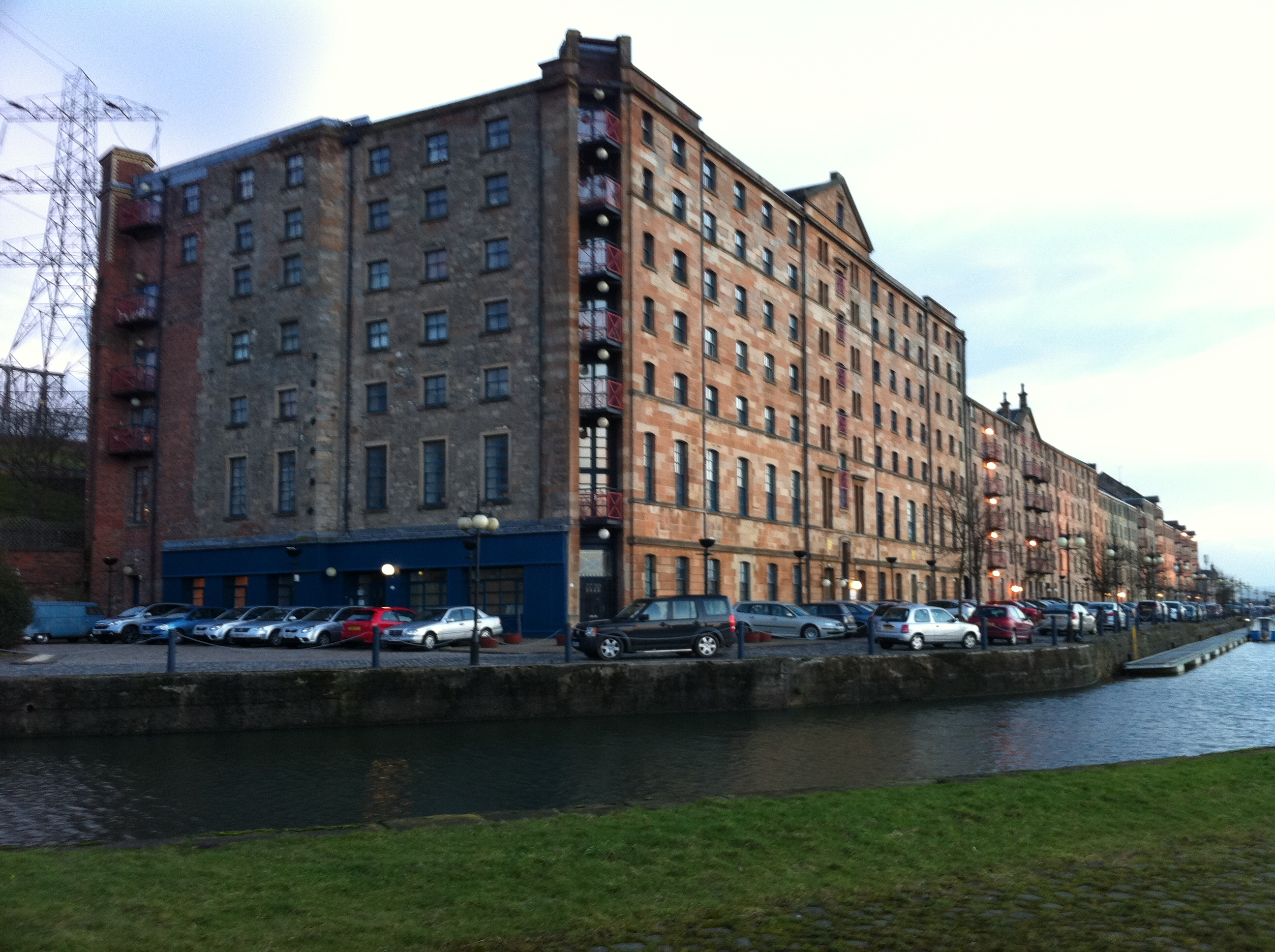 Speirs Wharf which was original a mill was converted in 1989 into 150 loft-style residential apartments, a private leisure centre, and 19 commercial units.